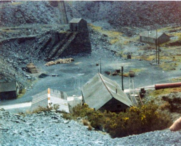 Aberllefenni Quarry, around 1979 Author: Dan Crow